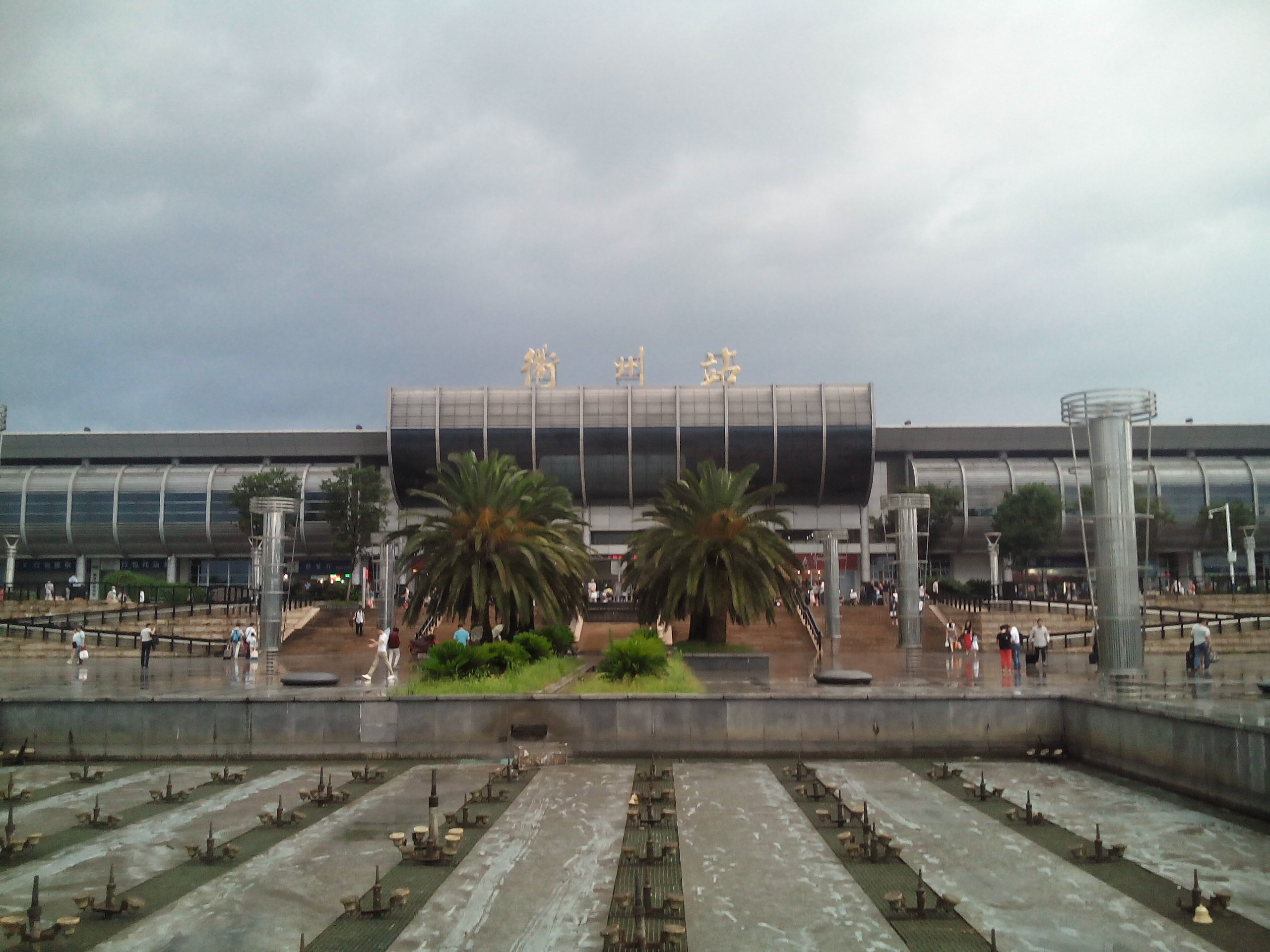 201507 Quzhou Railway Station, the station building has been demolished